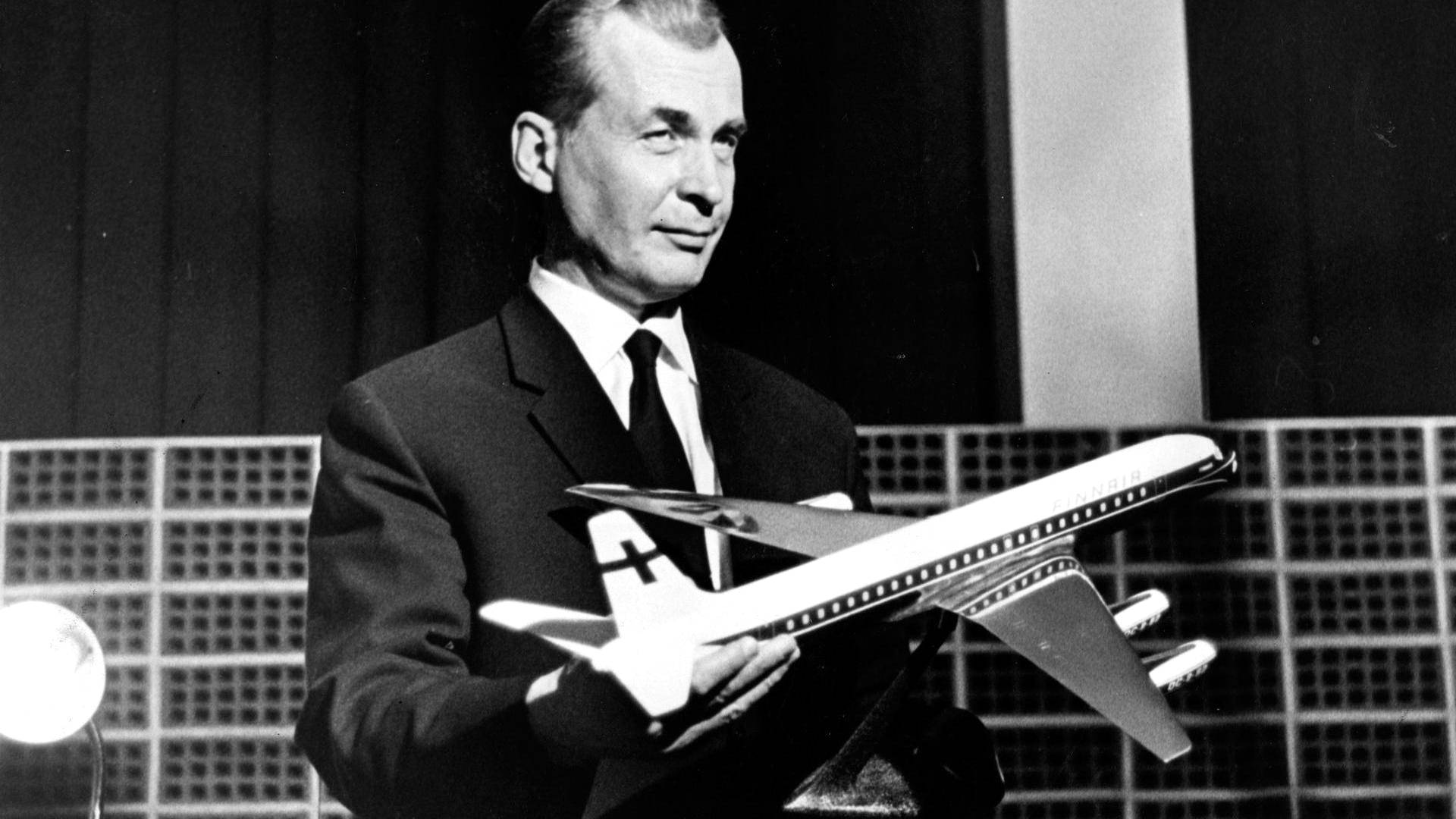 Photograph of the Finnish executive Gunnar Korhonen (1918–2001) from Finnair holding a DC-8 Super 62 CF model aeroplane.